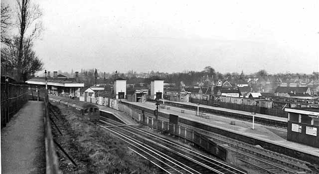 Bushey & Oxhey Station. Plain 'Bushey' since 5/74. View northward, towards Watford Junction; ex-London & North Western, West Coast Main line, also suburban (electrified) line to Watford Junction via Watford High St., which loops off here to the left and on which an LTE Bakerloo Line train from Elephant & Castle is seen. (The Underground services were cut back to Harrow & Wealdstone from 24/9/82).